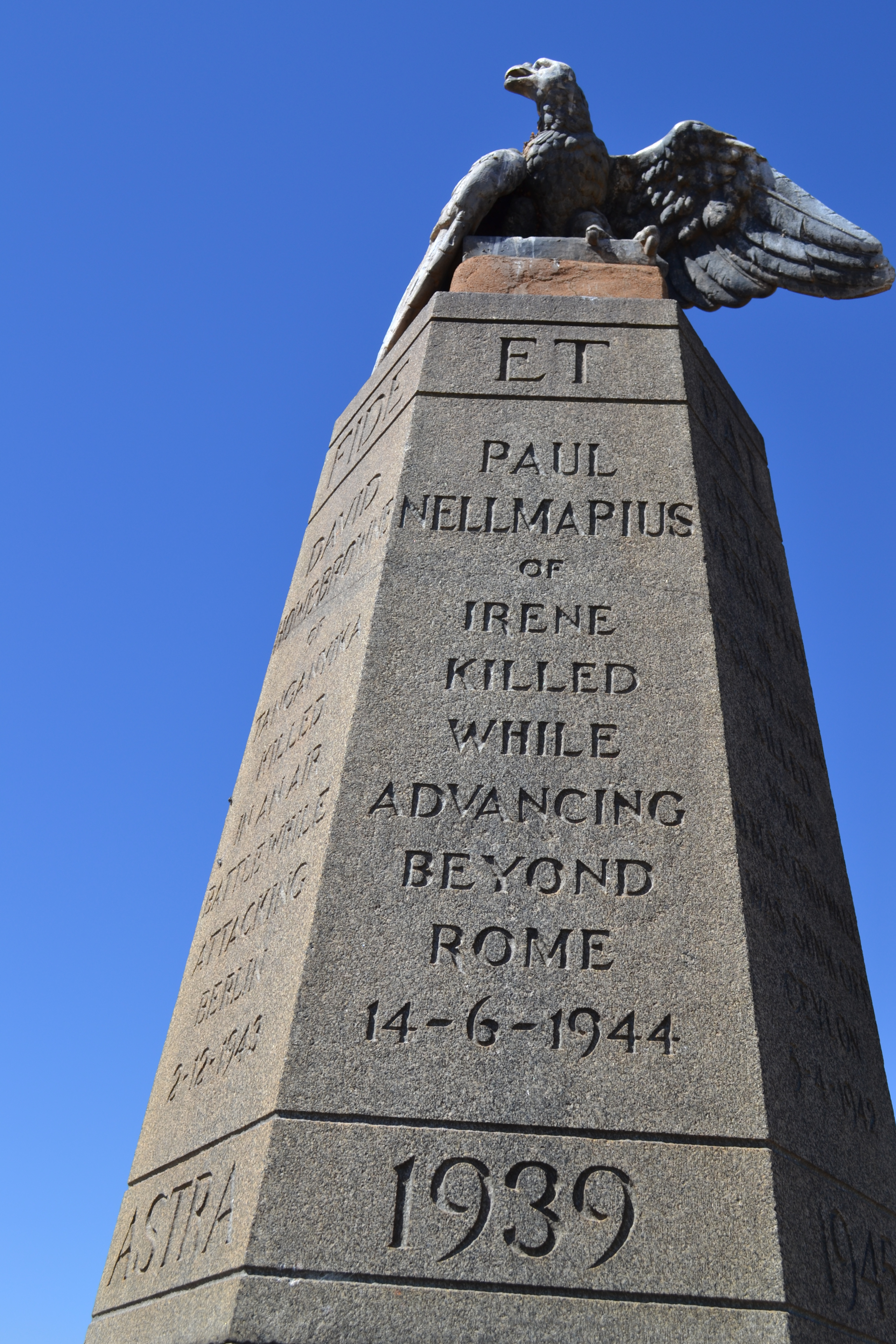 IRENE Cornwall Hill Military Monument Pretoria This media shows a South African Protected Site with SAHRA file reference 000000.